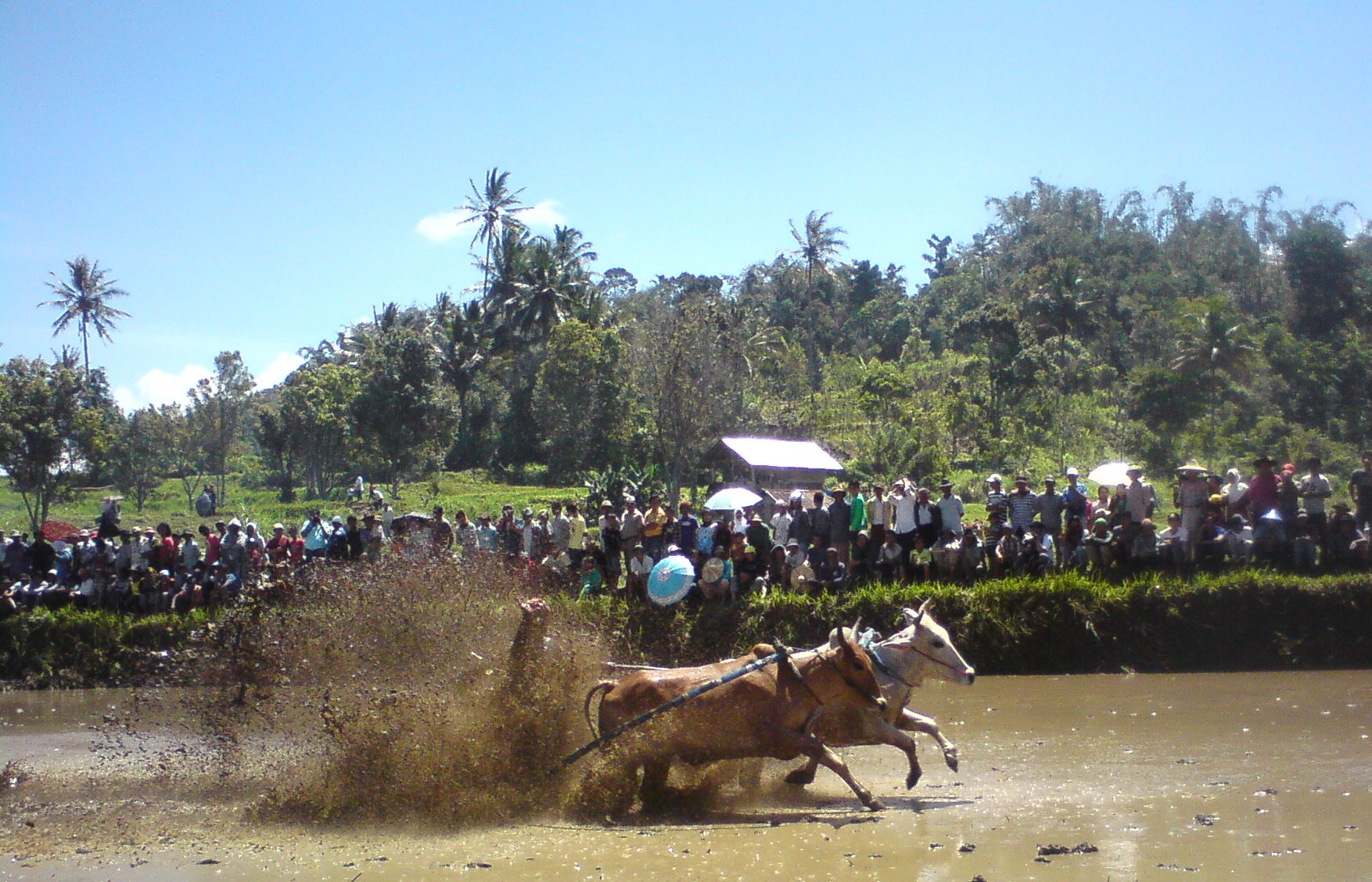 Paju Jawi adalah tradisi yang dilakukan oleh petani setelah musim panen atau menjelang musim tanam padi di Kabupaten Tanah Datar provinsi Sumatera Barat. Perlombaan dilakukan dengan menunggangi kayu yang diikatkan ke 2 ekor sapi. Penunggang akan menarik ekor sapi untuk mengarahkan laju sapi.